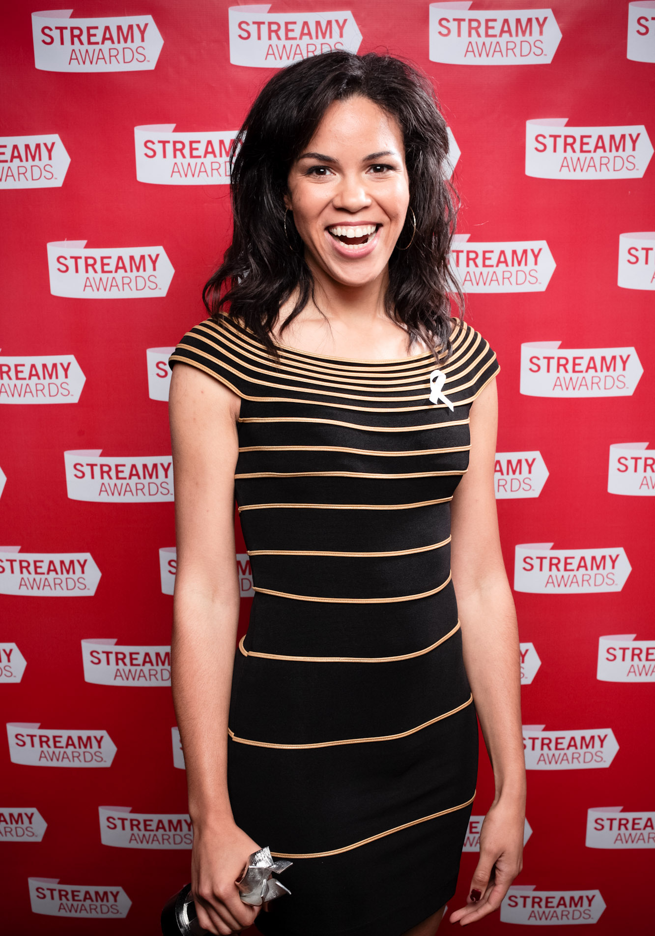 Zadi Diaz at the 2010 Streamy Awards